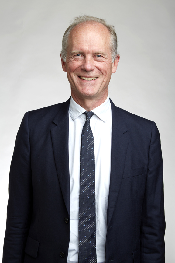 Dimitri Michael Kullmann is a professor of neurology at the UCL Institute of Neurology and leads the synaptopathies initiative funded by the Wellcome Trust Attribution: The Royal Society